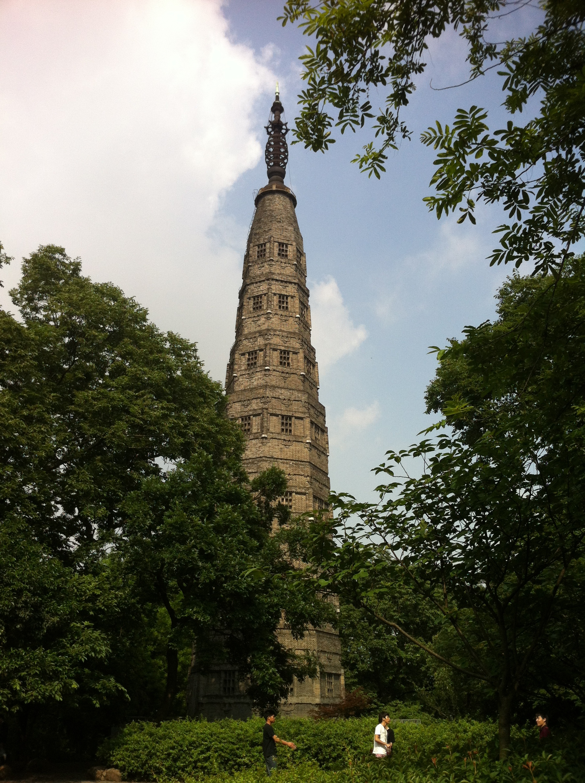 Baochu Pagoda, Hangzhou This photo was uploaded via Mobile Web .